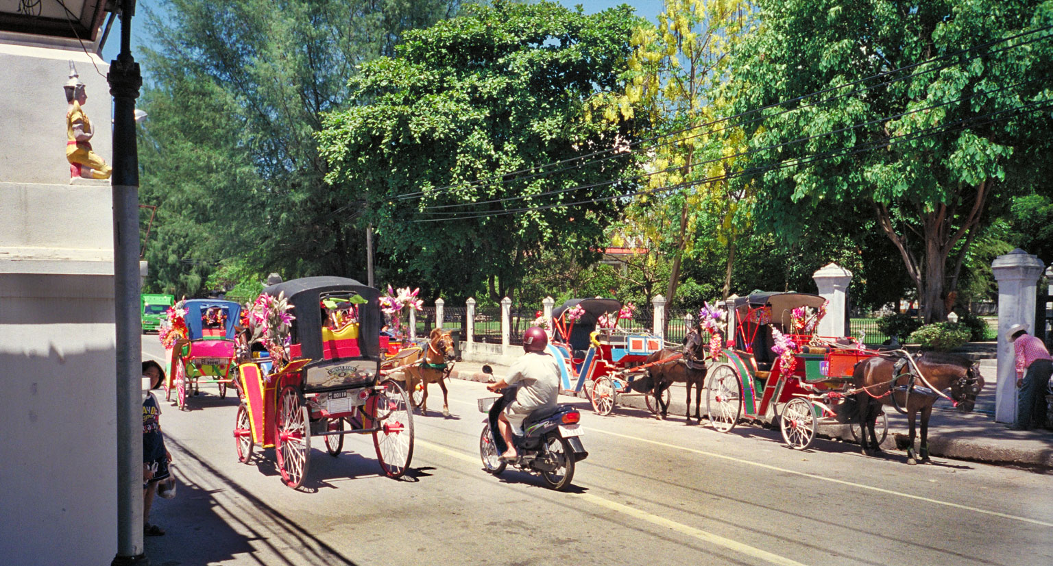 Horse-drawn carriages, Lampang, northern Thailand